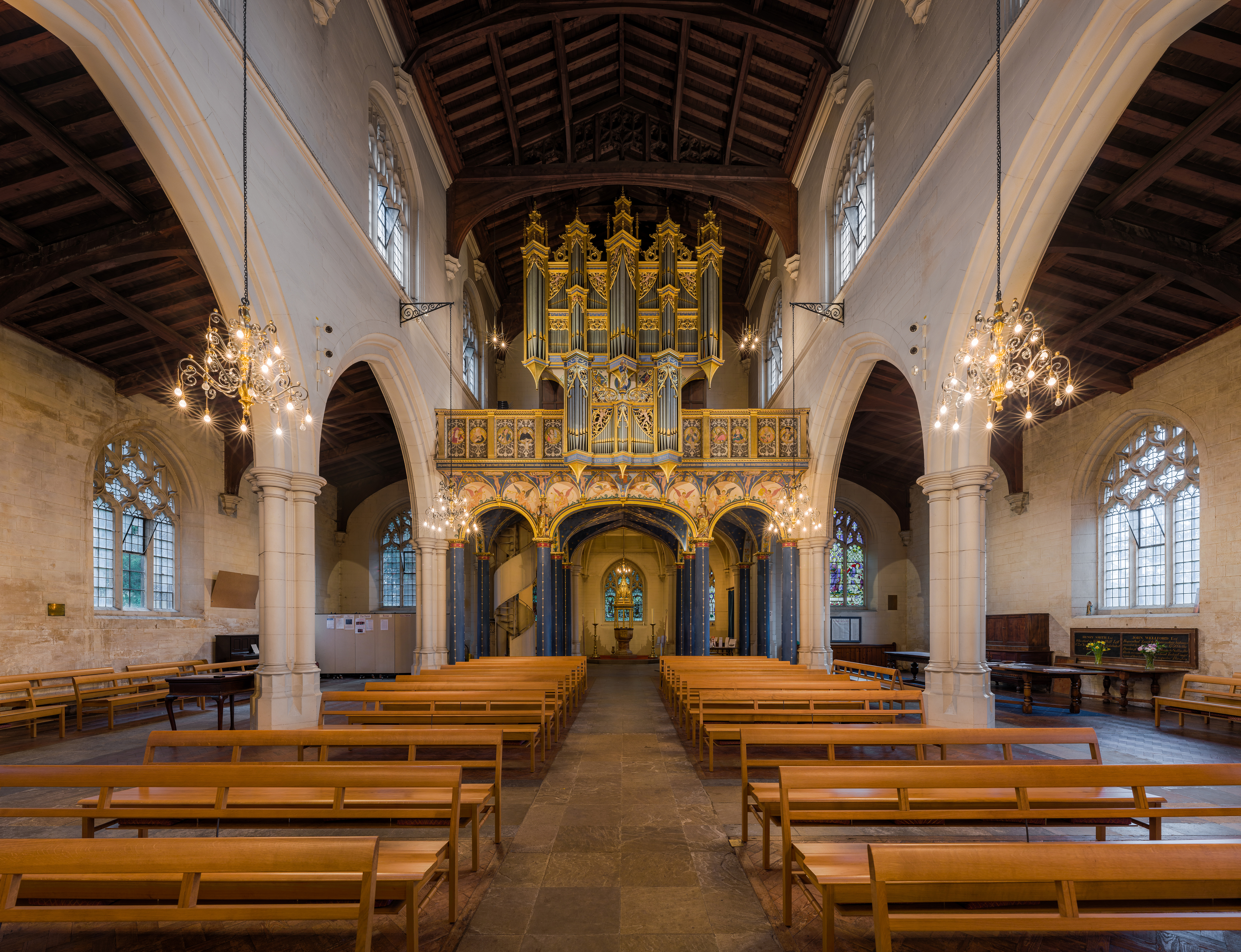 The interior of All Saints Church, Carshalton in Surrey, England.